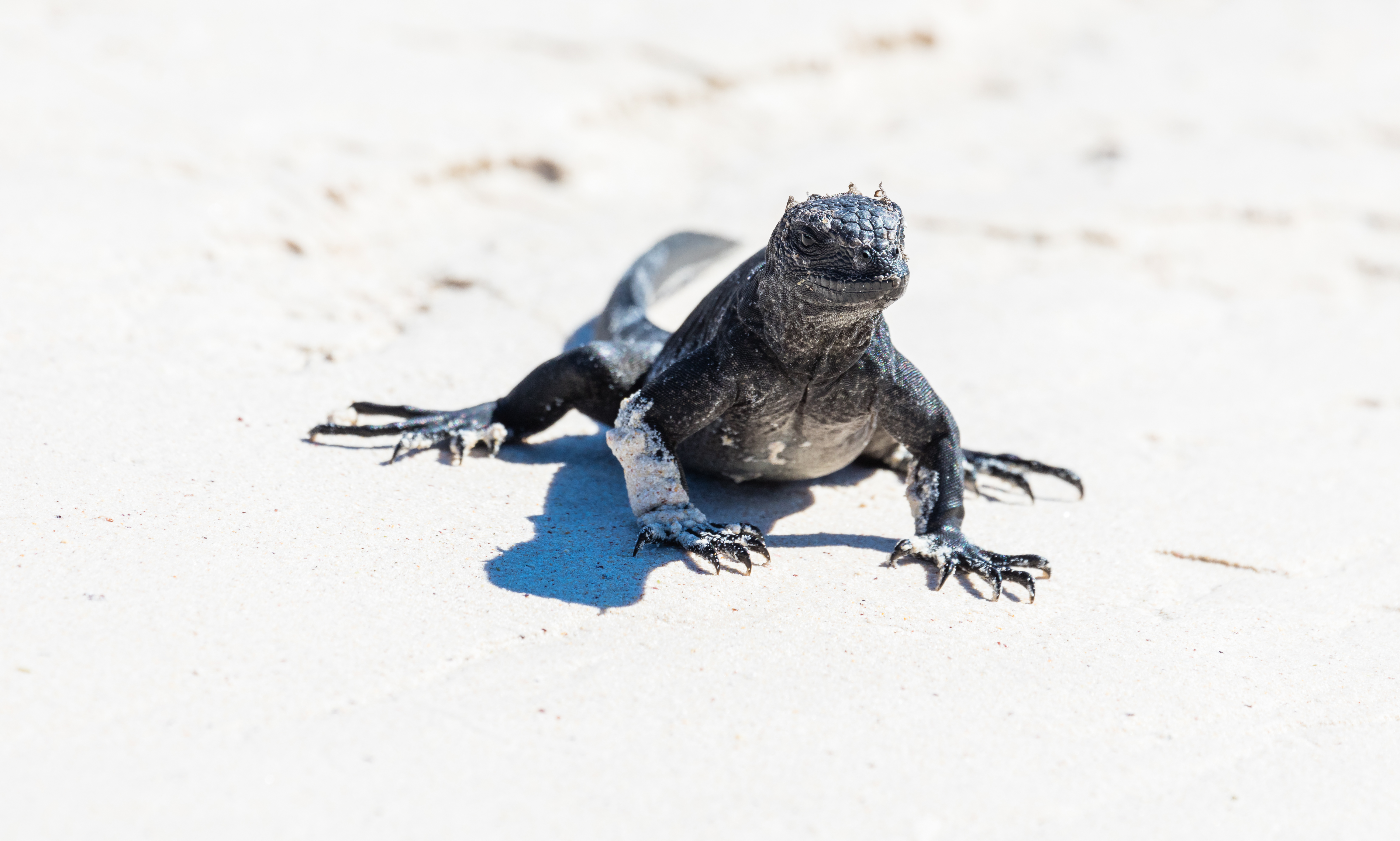 Marine iguana (Amblyrhynchus cristatus), Las Bachas, Baltra island, Galapagos islands, Ecuador